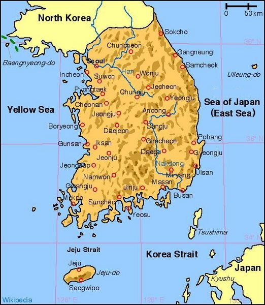 This is a map of South Korea showing major settlements. The map was drawn by myself (Kokiri). Modified by User:Valentim